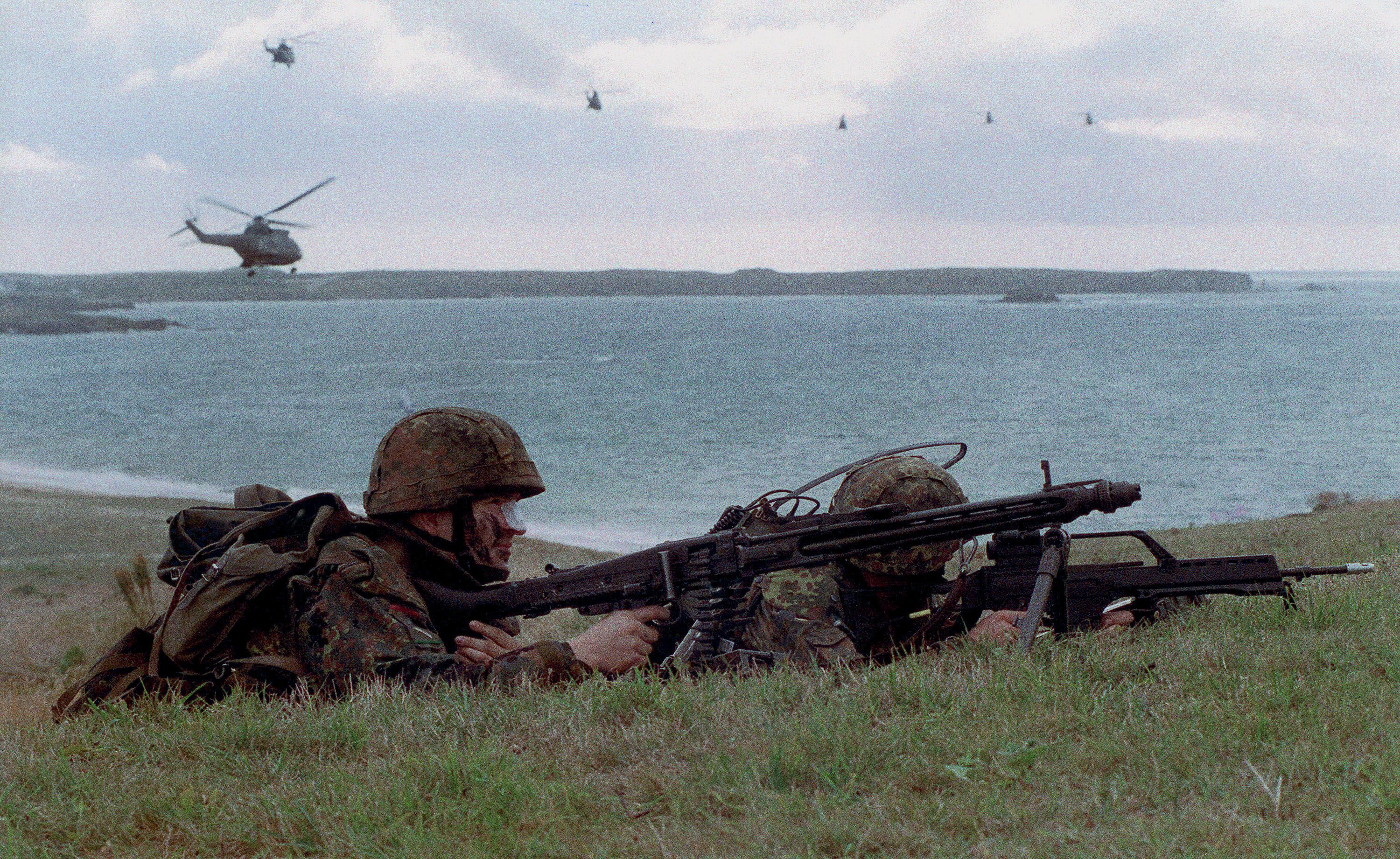 Military Photographer of the Year Winner 1999 TITLE: "Return to Quiberon" CATEGORY: Portfolio PLACE: Third Place Portfolio CAPTION INFORMATION: Tuesday Sept. 21, 1999. During Operation Northern Light '99, NATO German Marines (in German Marineschutzkrafte) prepare to take a French fort in Quiberon, France. NATO troops are in France to practice invasion techniques with troops from different NATO countries. A U.S. Naval Coastal Warfare team is on deployment in France to act as opposition to NATO forces. IMAGE FILE #DD-SP-01-0054 (Released to Public) Note to the Description: In fact in the history of German warfare, Germany never truly had a Marine Division. The German Navy has only Infantry (Marineschutzkräfte) trained for Amphibious Assault, they were never truly considered as the Marines. The Marineschutzkräfte operate under Bundeswehr Navy Jurisdictions and are not regarded as Marines, like the USMC. Additional note: At least the soldier on the left hand side is probably not a soldier of Marineschutzkräfte, because the rank insign is white/silver instead of golden, as it is common to all soldiers of the German Navy. Insted he is more likely a member of the German Army. The green string attached to the rank inisgnia may more likely indicate that the soldier is part of the German (mechanised) infantry. Correction: This image has a wrong title. In 1999 the Jägerbataillon 292 formed up the 1st Amphibious Company only for operation Northern Light '99. The 1st Amphibious Company was build across troups from all four battle-companies of the bataillon.